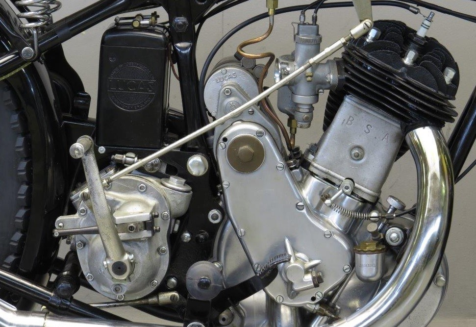 1933 BSA M33-10 600cc-side valve motorcycle engine